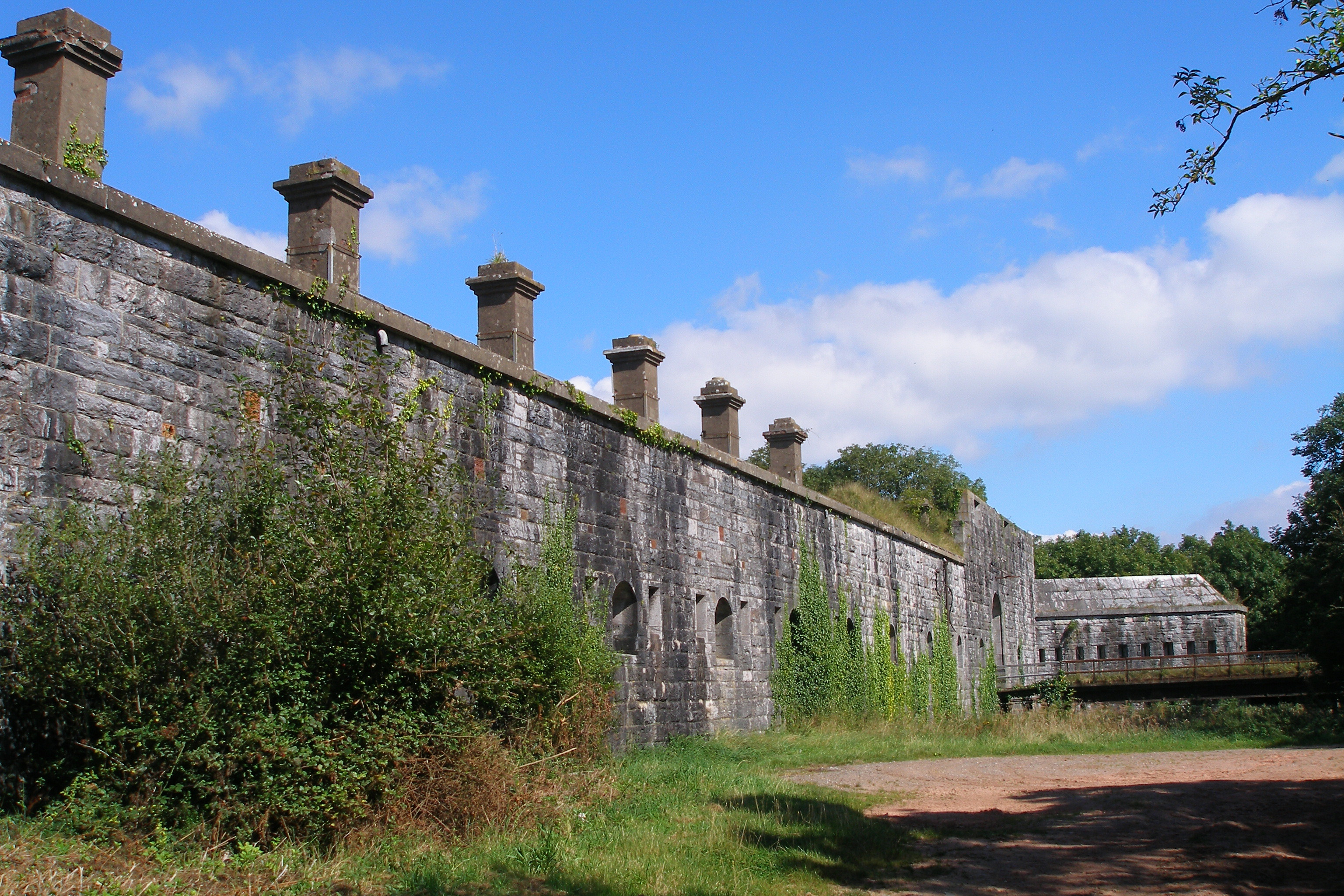 Scraesdon Fort 6th September 2007. East facing wall.